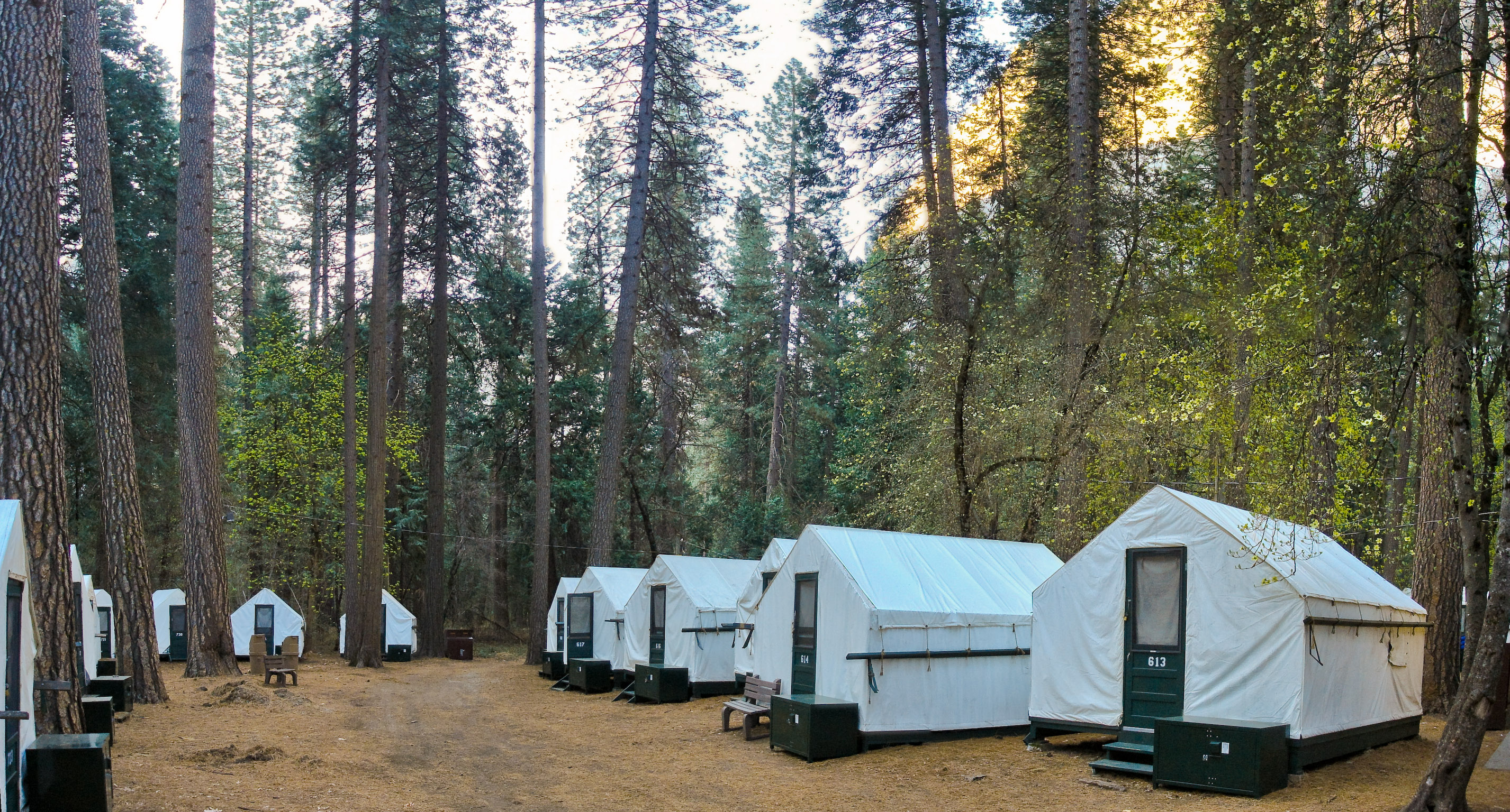 Curry Village in Yosemite Valley National Park